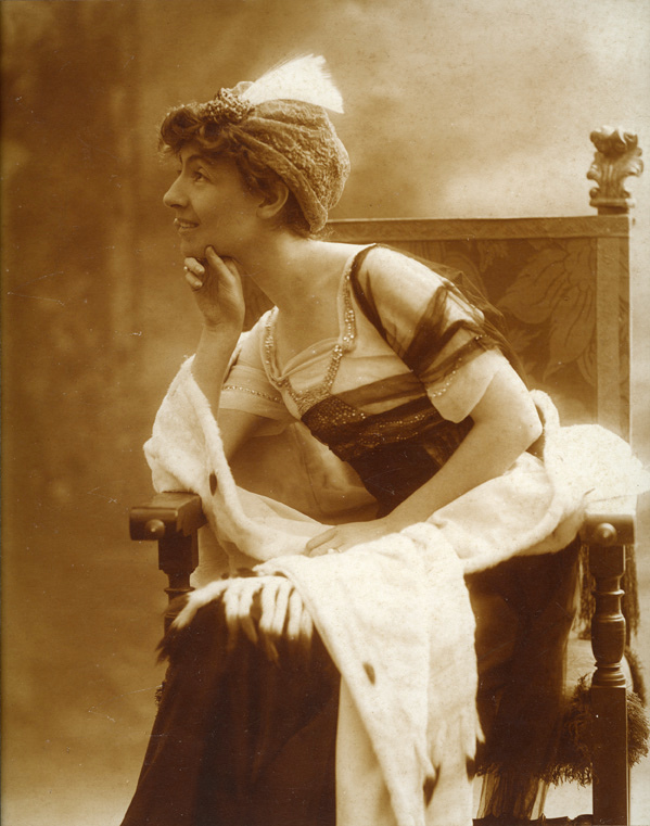 Mario Nunes Vais (1856-1932), "Portrait of an unknown sitter".